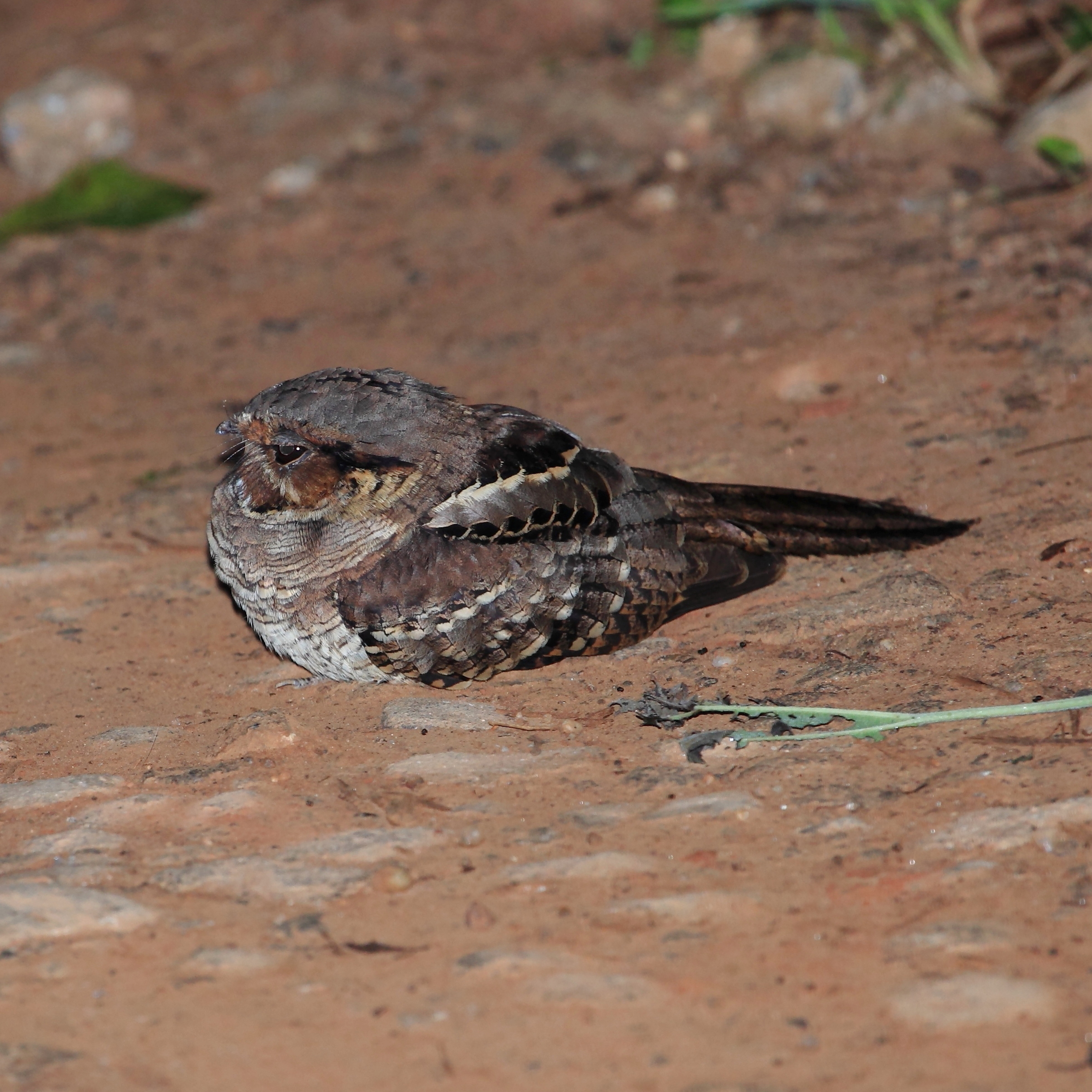 Pauraque at Tremembé - SP -Brazil